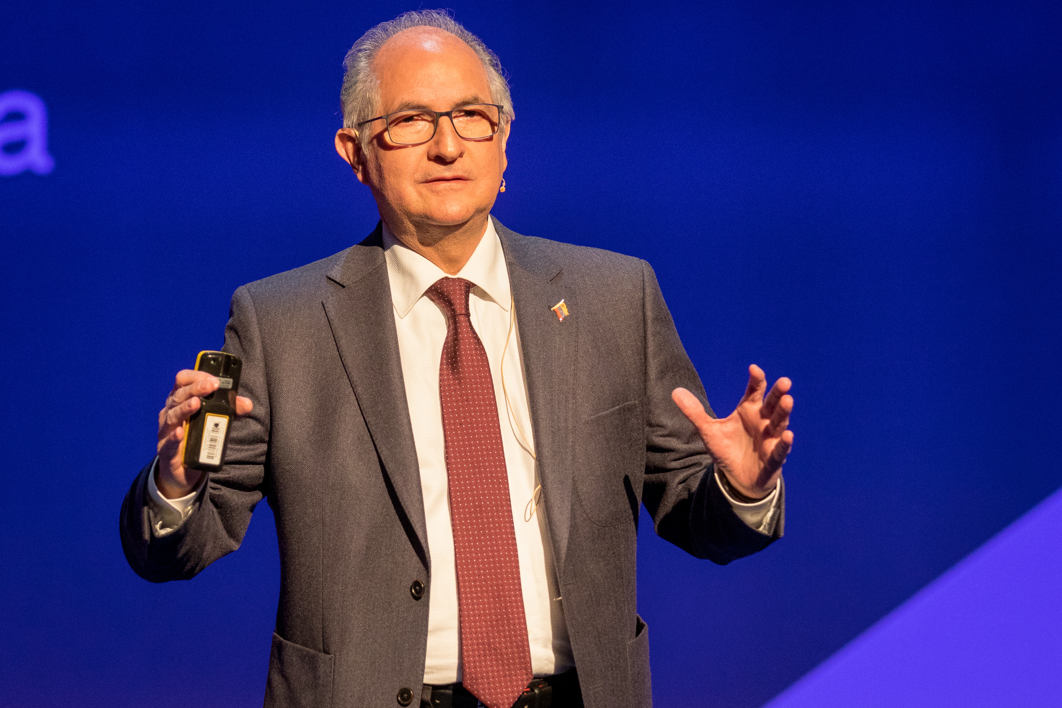 Antonio Ledezma at the 2018 Oslo Freedom Forum. The sessions where held in Det Norske Teater on 29 and 30. May 2018.